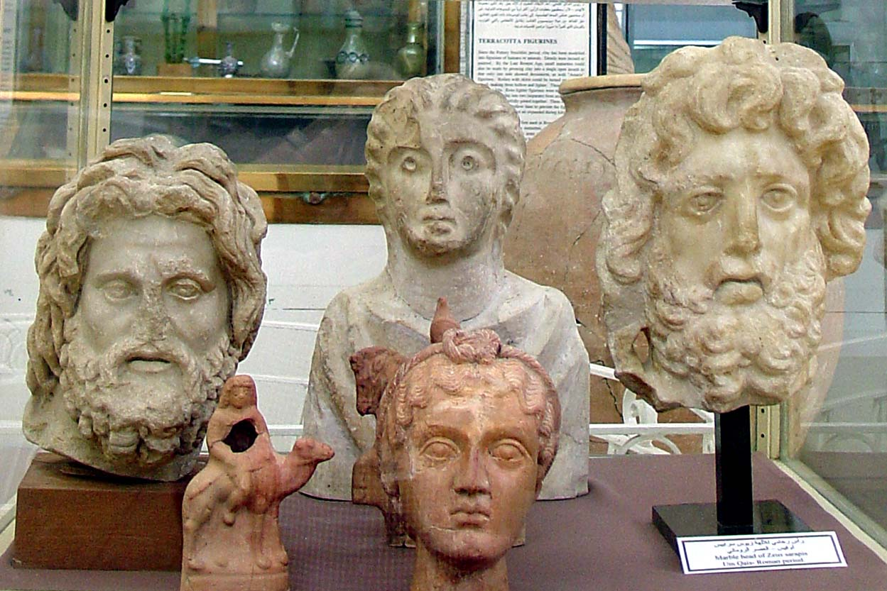 Roman period in Jordan. According to the museum label, the marble head on the right, with flowing locks and full beard, is Zeus.